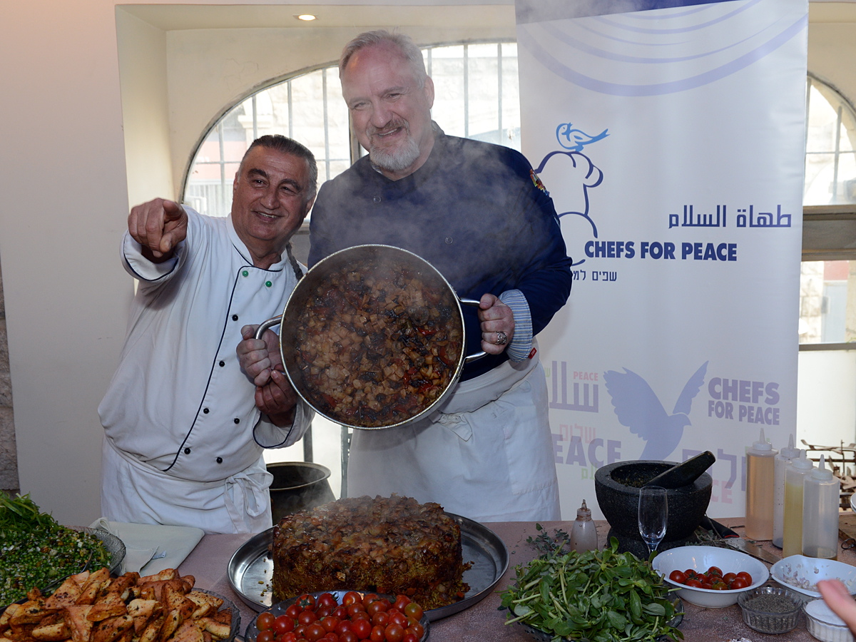 “Chefs For Peace” organization hosts Art Smith in the Eucalyptus restaurant. Local Jewish, Christian and Moslem chefs cook together with Art Smith, using several typical local ingredients (vegetarian) and giving them their own unique cultural interpretation but also showing how food can bridge different cultures.